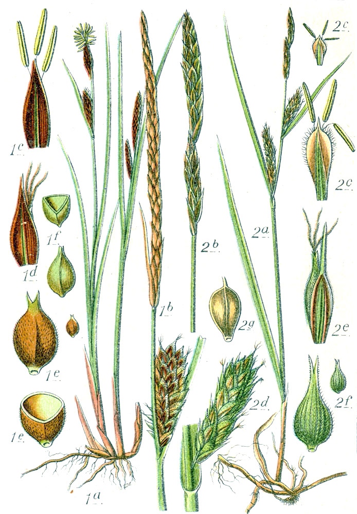 1. Carex lasiocarpa Ehrh. 2. Carex hirta L. Original Caption 1. Faden-Segge, Carex lasiocarpa 2. Behaarte Segge, C. hirta